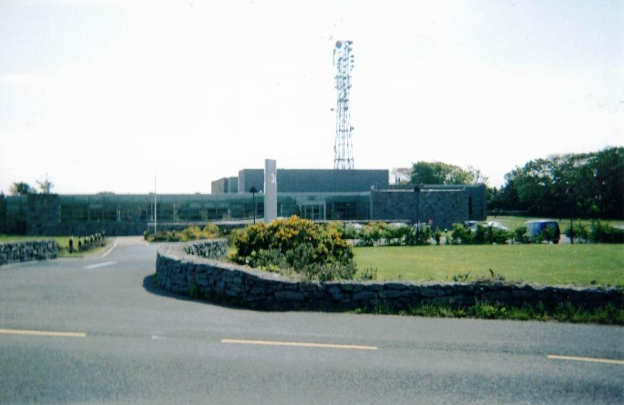 TG4 Irish language television channel based in Baile na hAbhann Conamara, Co. Galway.